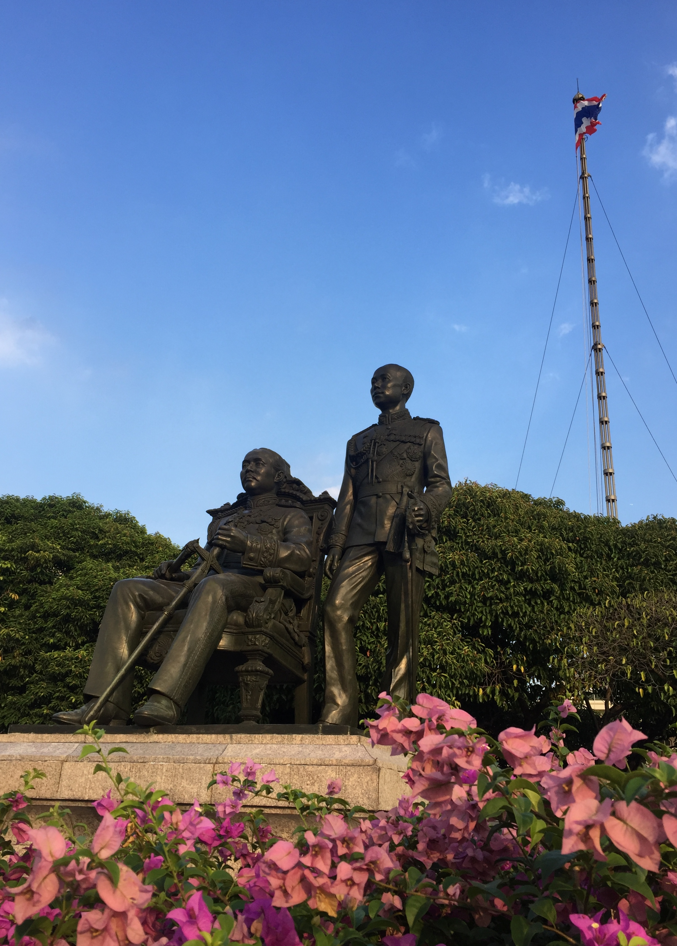 Monument of two king who found Chulalongkorn University.